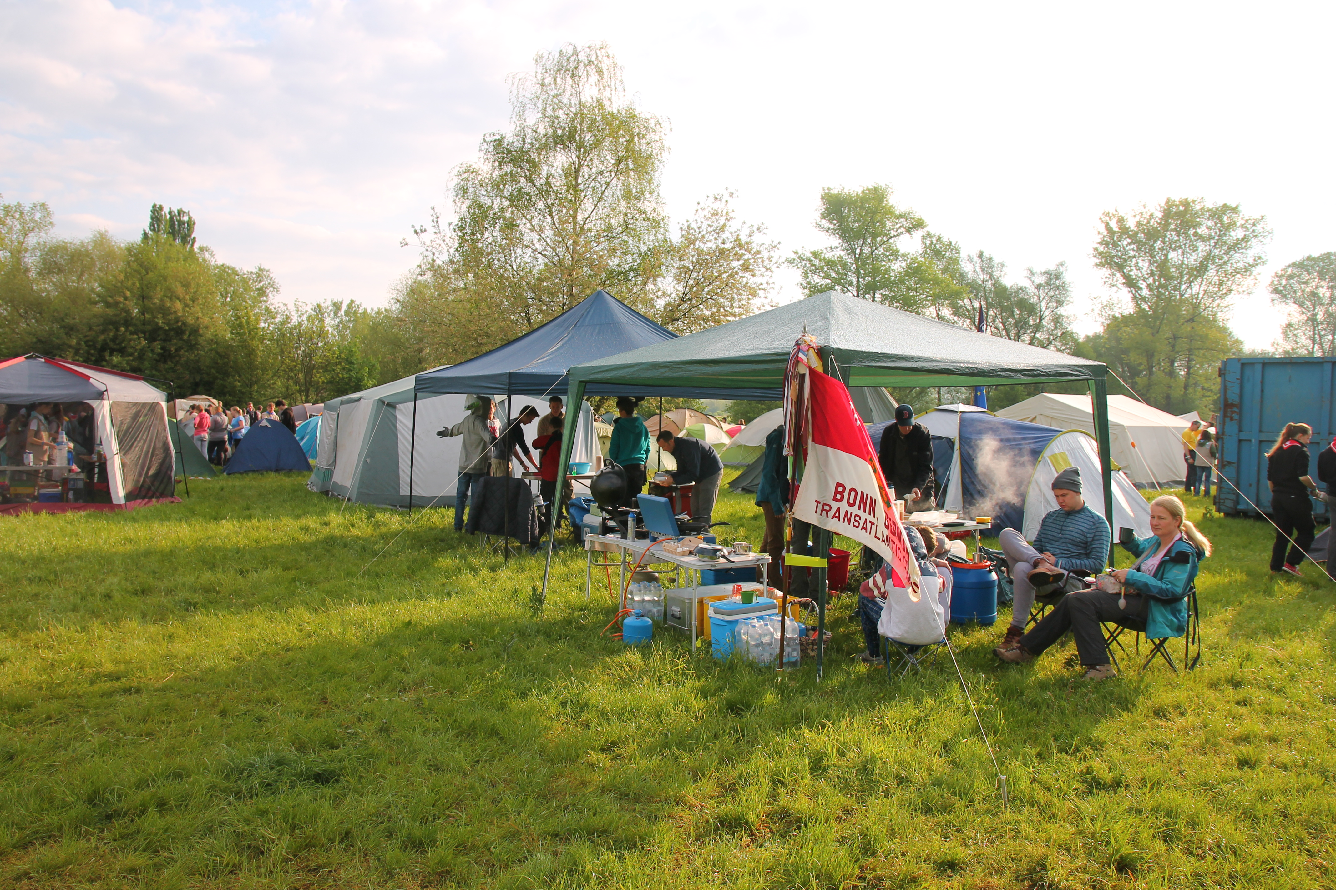 Intercamp 2016 (13.–16. 5. 2016), Josefov fortress, Jaroměře, Czech Republic, tents of participants